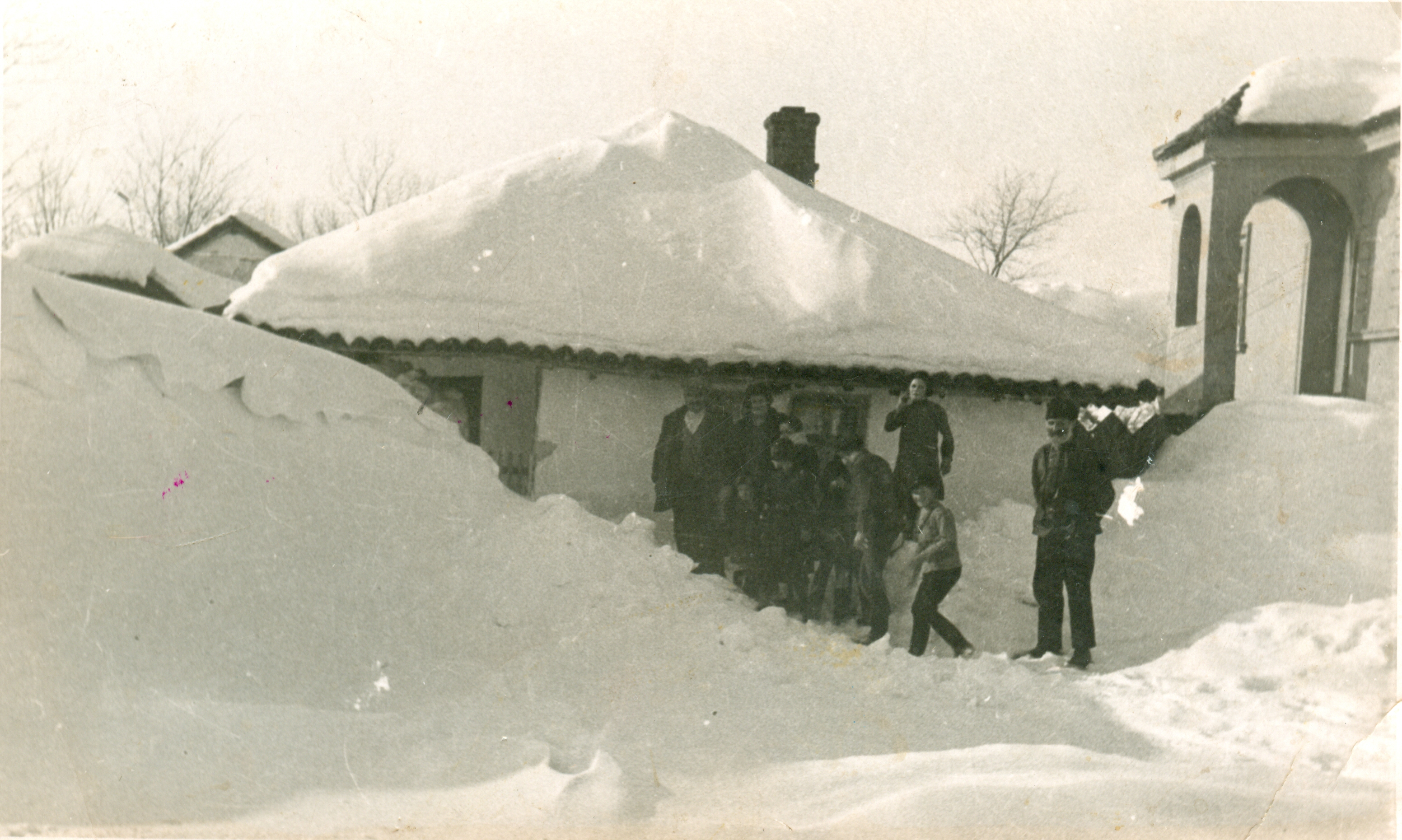 Winter in Negotin 1941/1942. Srpski (latinica): Zima u Malom selu u Negotinu 1941-1942.